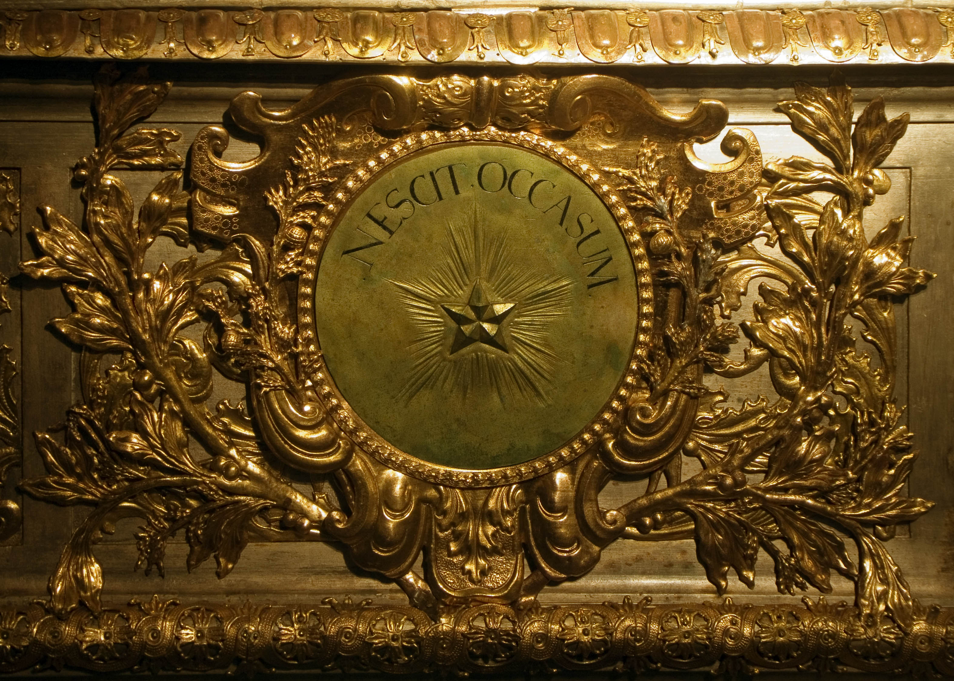 The north star as the symbol of the Swedish royal house. The north star on the coffin of Charles XI of Sweden, Riddarholmen Church, Stockholm, Sweden.